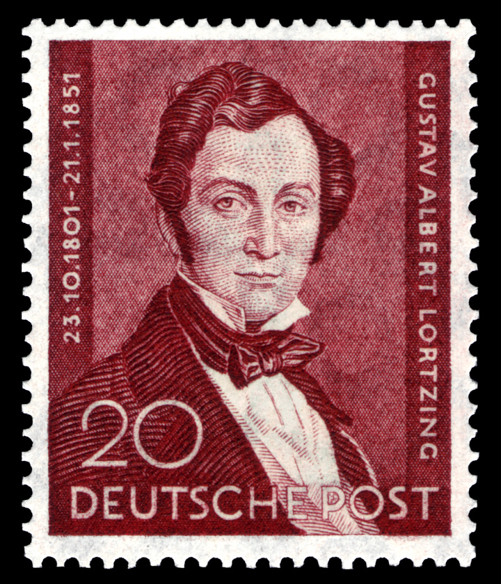 100th day of death of Albert Lortzing (1801–1851)